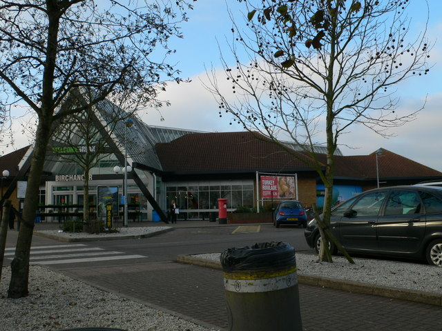 Birchanger Green Services Off Junction 8 of the M11